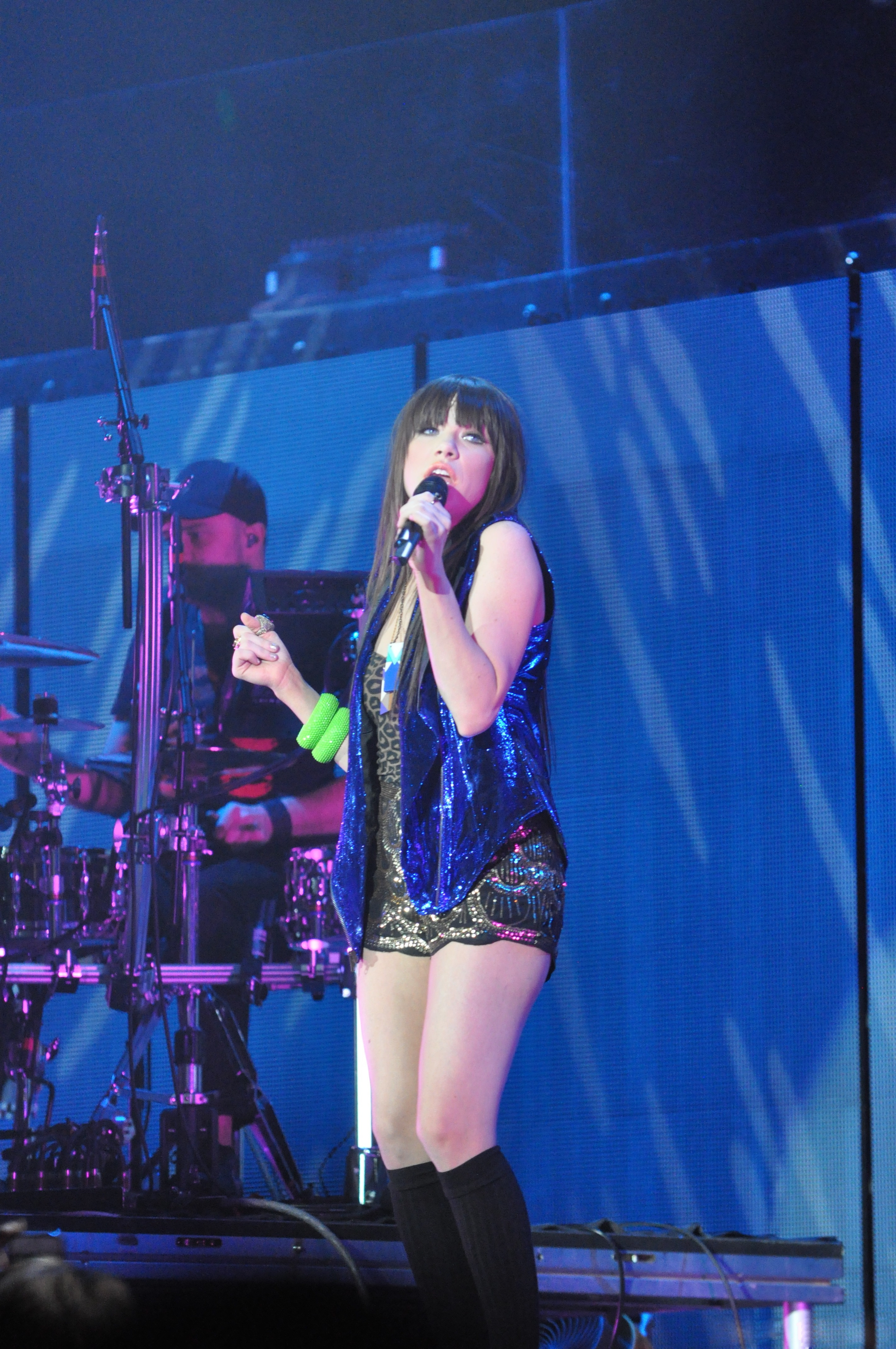 Carly Rae Jepson-DSC_0209-10.20.12